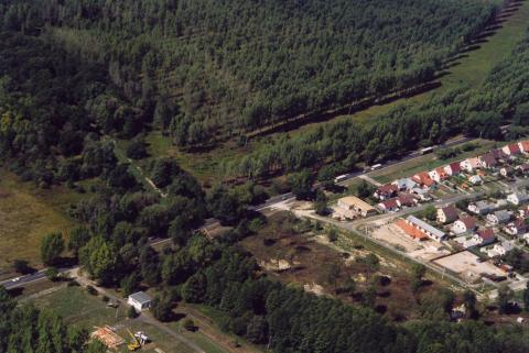 Városlőd, Hungary, aerialphotgraphy